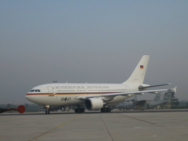 The Konrad Adenauer is a German aircraft used by the head of government for official travel and diplomatic business. Picture taken in Islamabad, Pakistan.